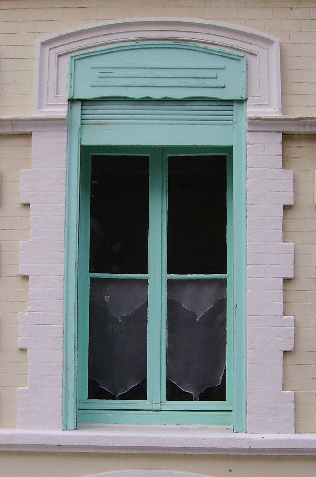 window in Calais, France